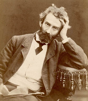 Photo of Nicholas Miklouho-Maclay